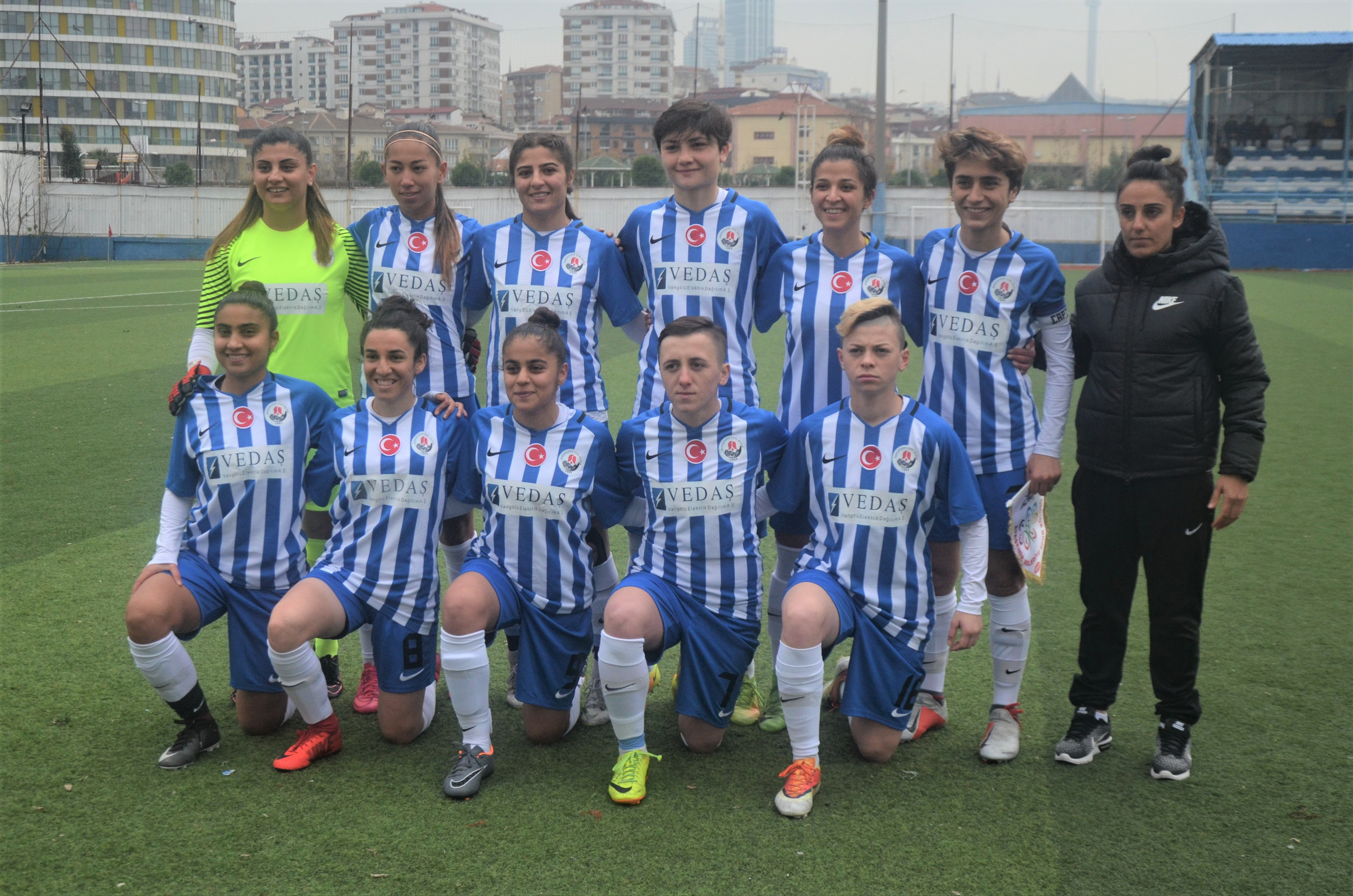 Hakkarigücü Spor squad and manager Cemile Timur (rightmost) in the 2018-19 Women's First League's away match agains Ataşehir Belediyespor in the Yenisahra Stadium.